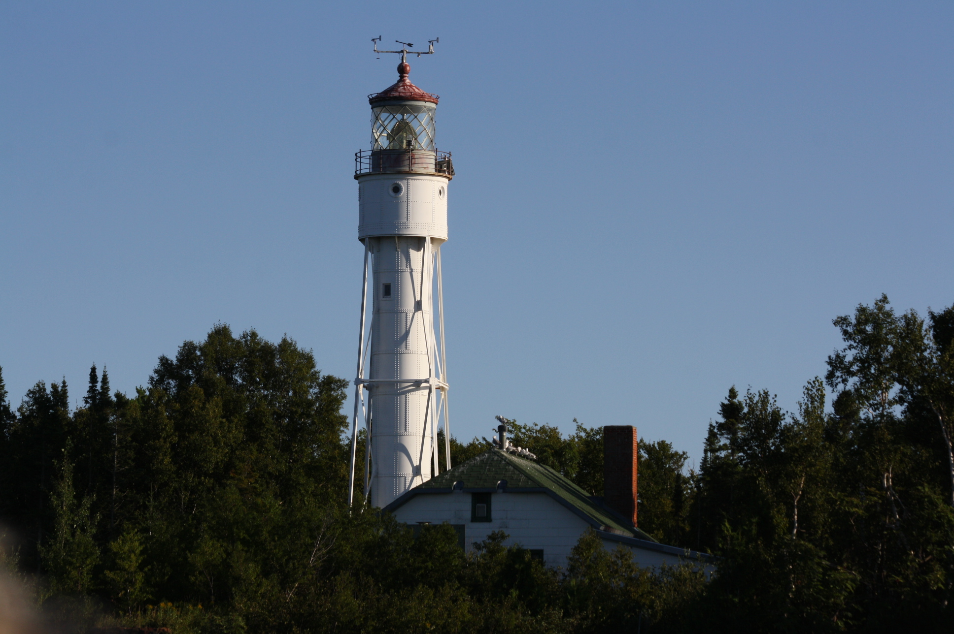 The Devils Island Light Station in the Apostle Islands National Lakeshore.